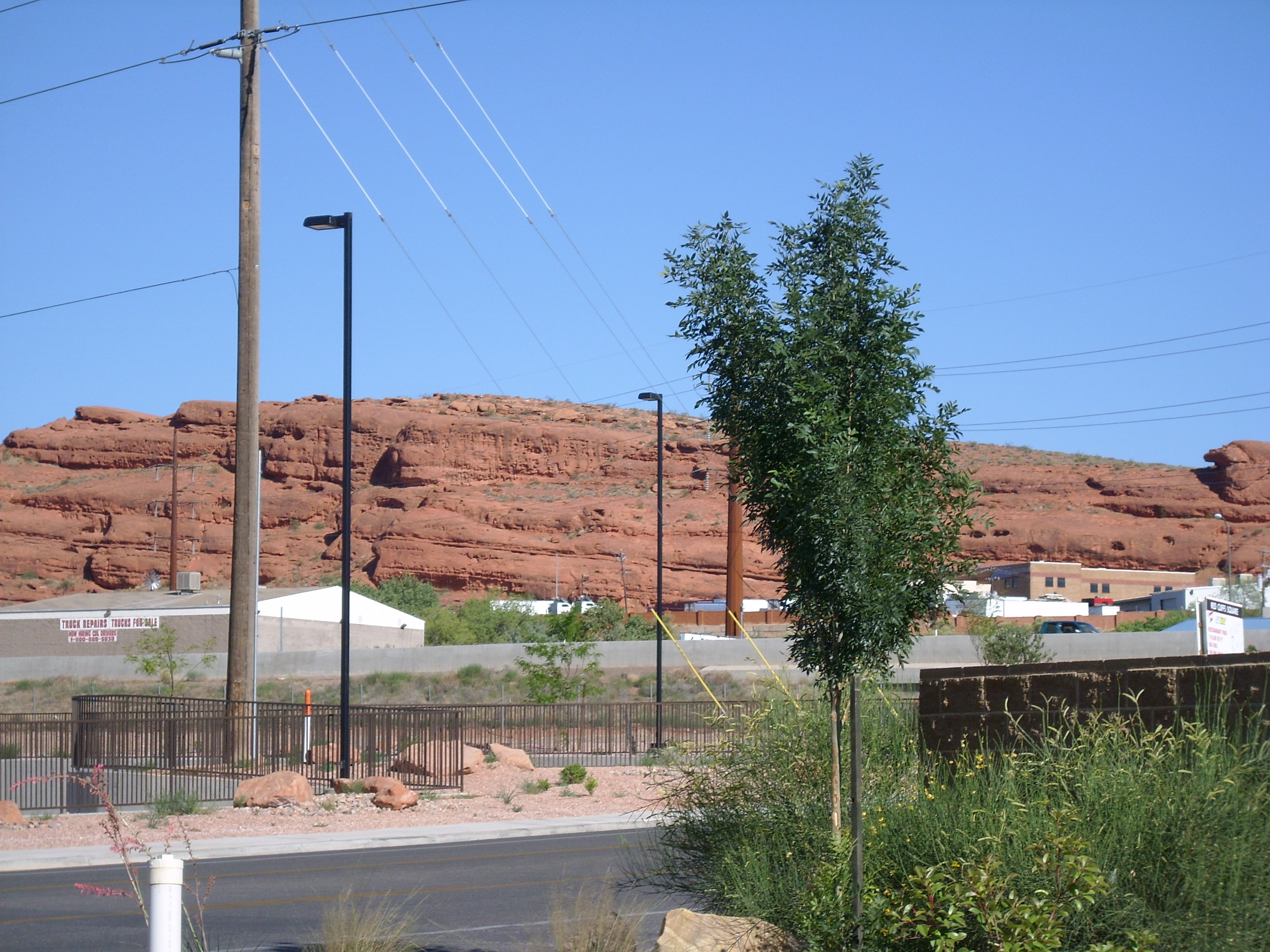 The red hills of St. George as well as some of the city can be seen here